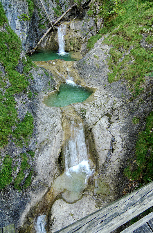 Waterfall in Bayrischzell, Bavaria